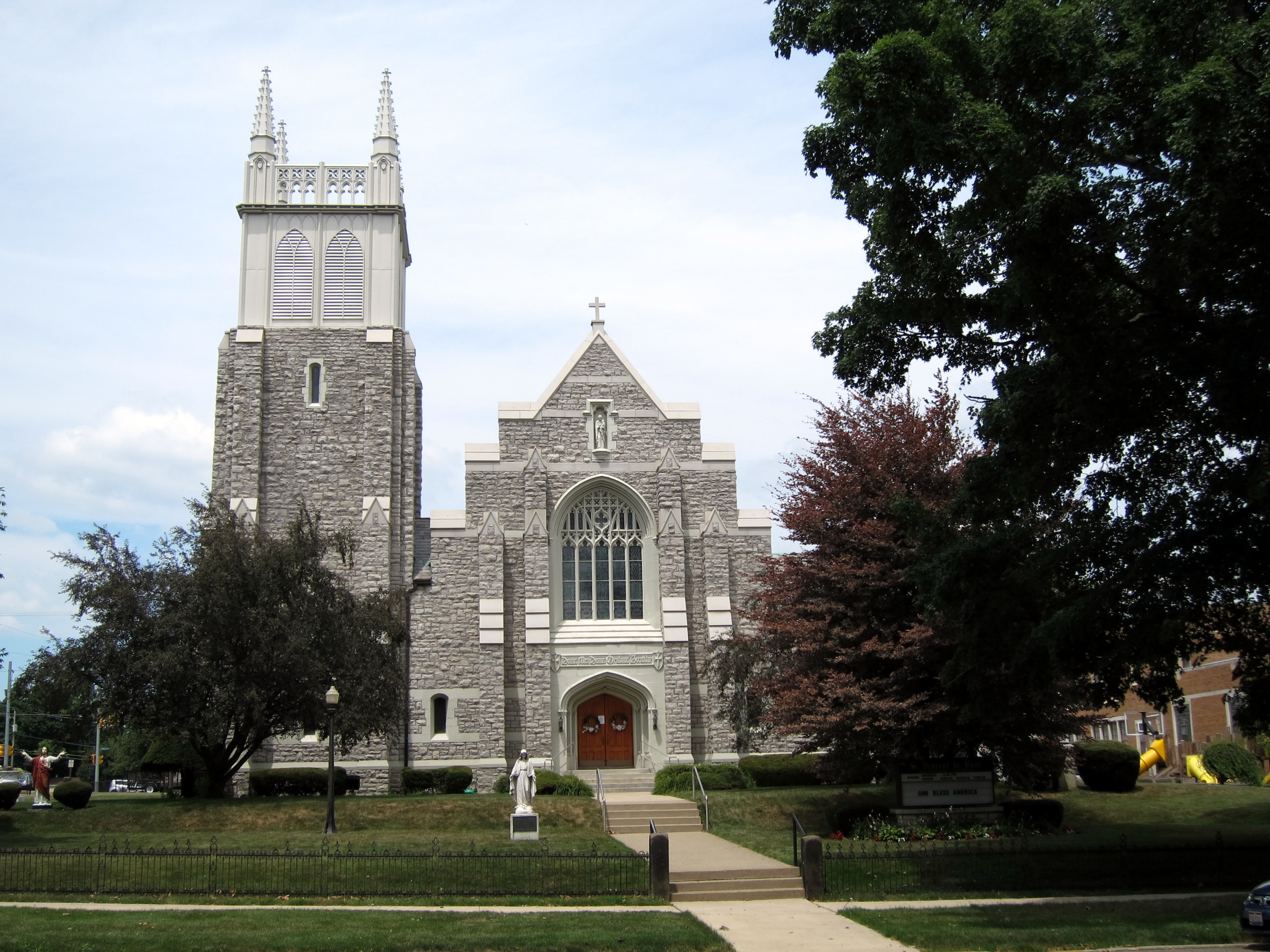 Saint Vincent de Paul Catholic Church (Mount Vernon, Ohio) - exterior, view from across the street